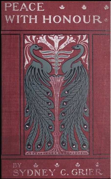 In Sydney C Grier’s Victorian novel about a New Woman doctor, Peace with Honour. Original printing was 1897 but this is the 1902 edition see here